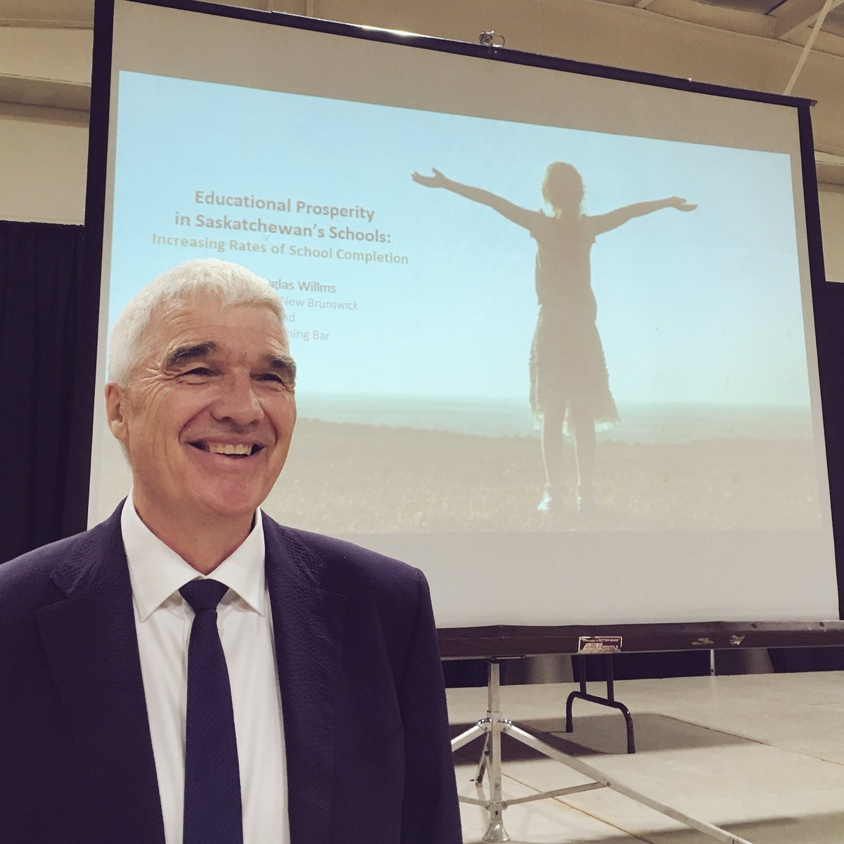 Dr. Willms speaking in Saskatchewan on his Educational Prosperity framework.